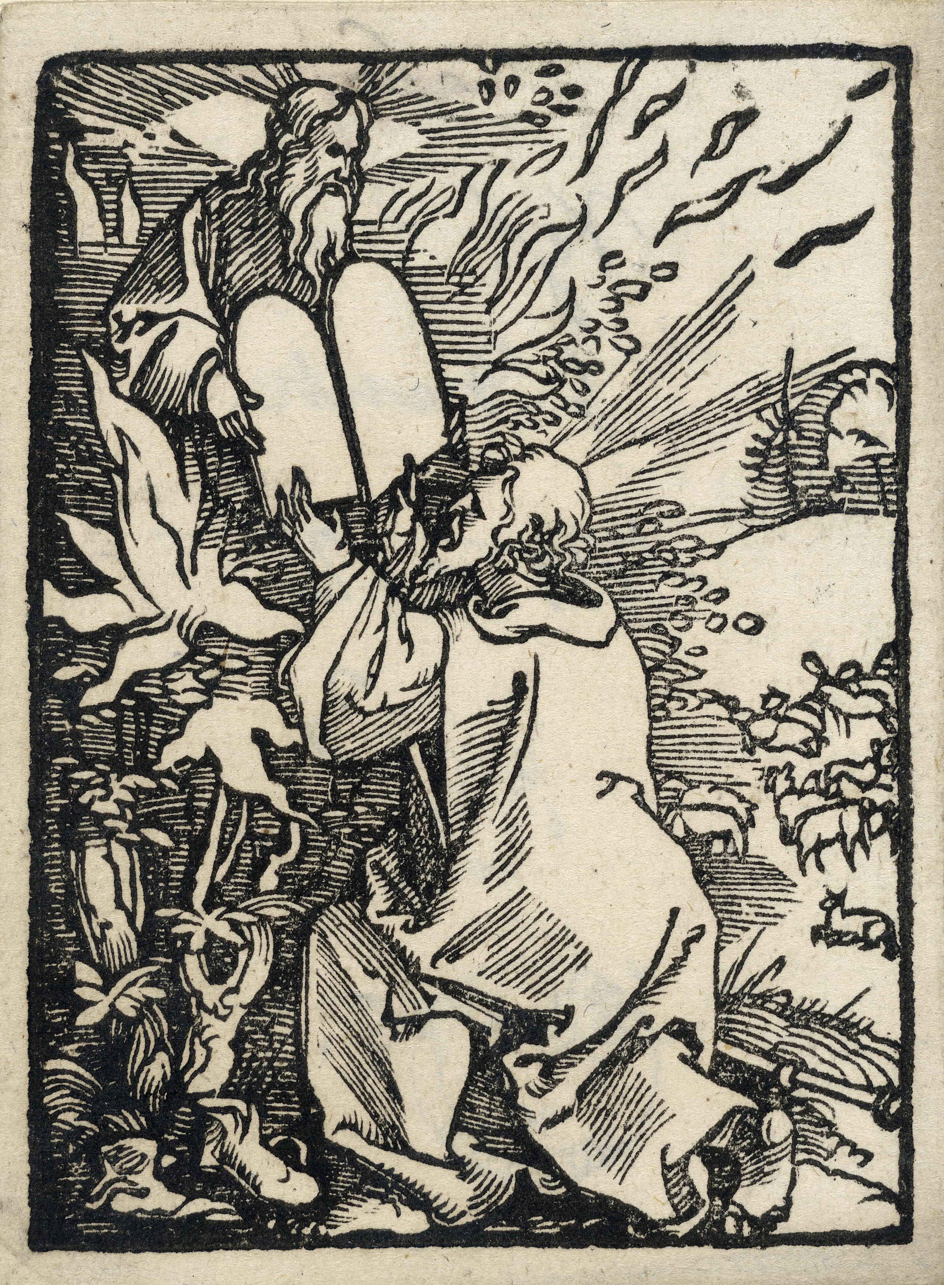 Moses receiving the ten commandments from prayer book of Martin Luther